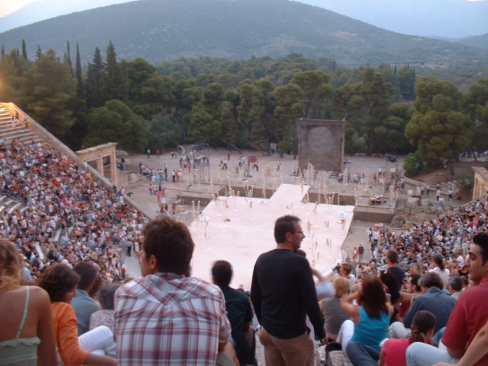 The ancient theatre of Epidaurus is nowadays used for staging ancient Greek drama shows.